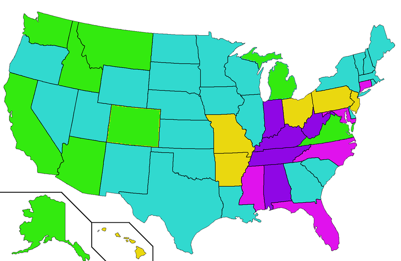 Legend: Independent commission Politician commission Passed by legislature with gubernatorial approval Passed by legislature, governor plays no role Passed by legislature, simple majority veto override